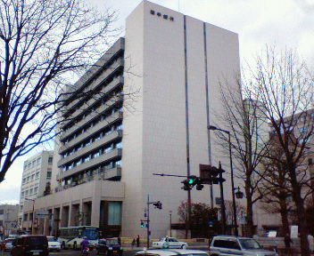 Bank of Iwate head office (Bank of Japan Morioka local office)